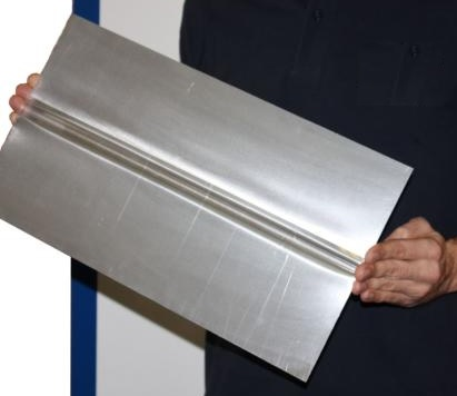 EMPT welding of sheets at PSTproducts GmbH